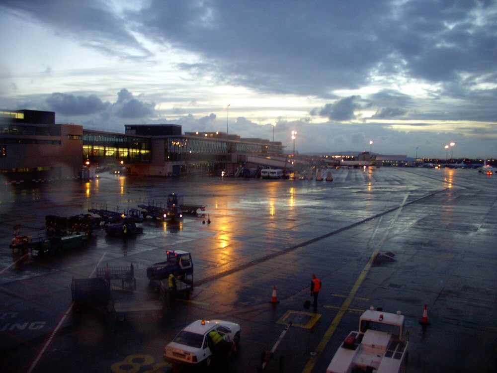 The sun comes up over Dublin airport.